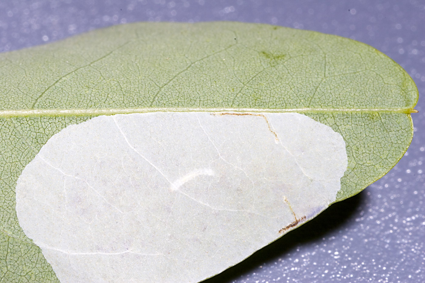 caterpillar of Phyllonorycter robiniella